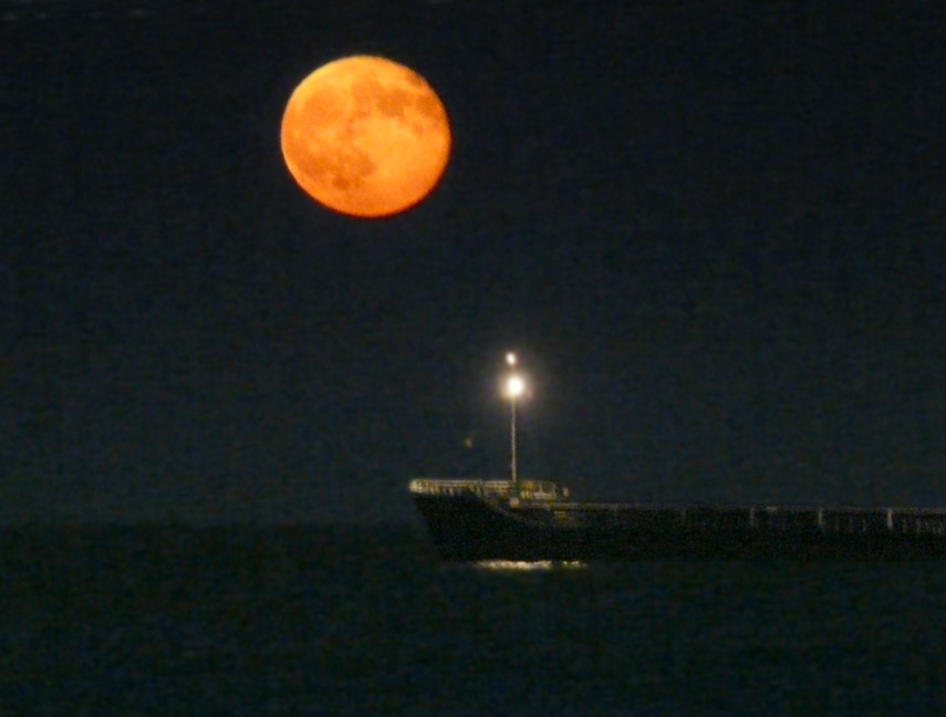 Moon rising from the sea